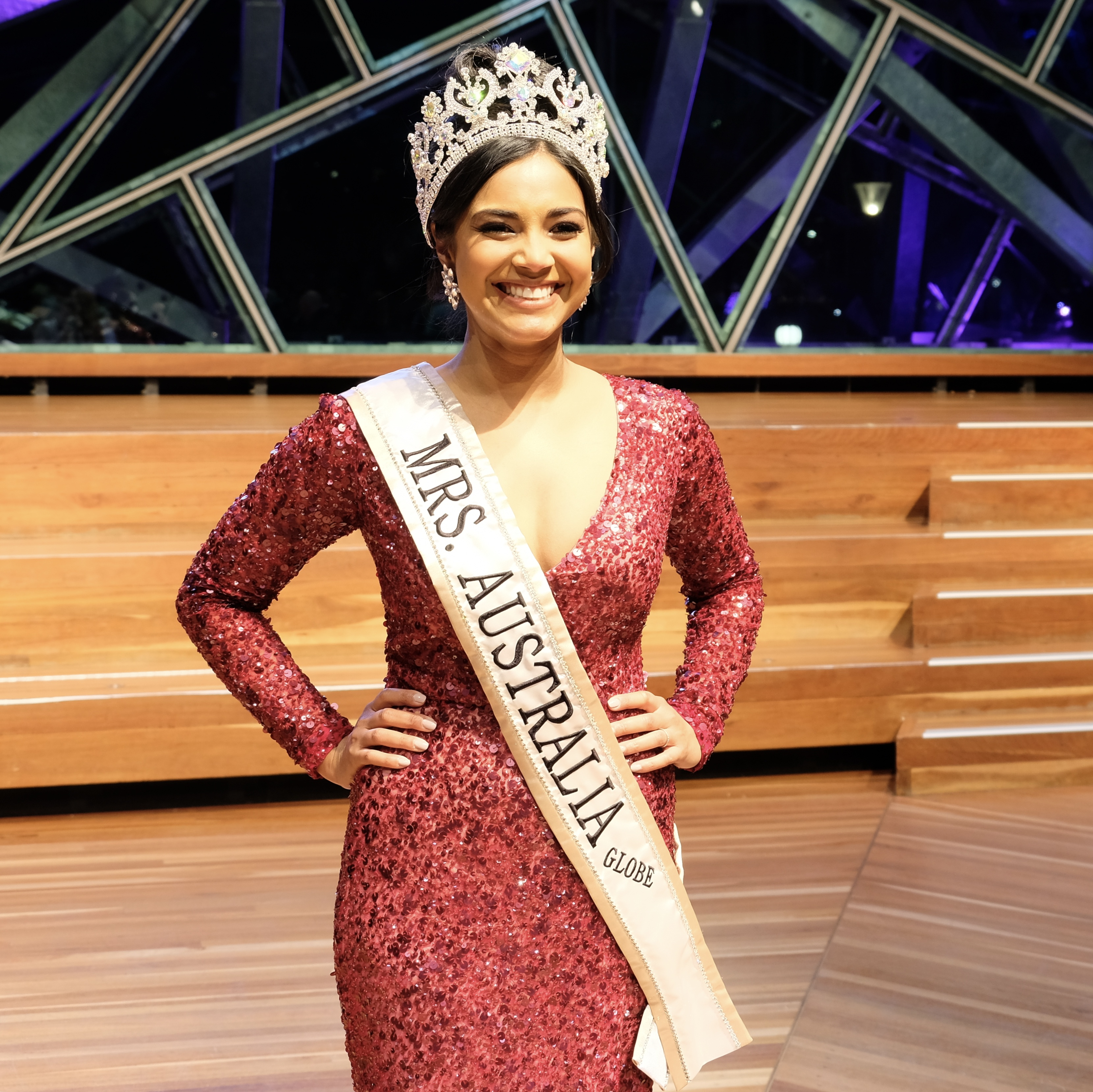 Mrs Australia 2018